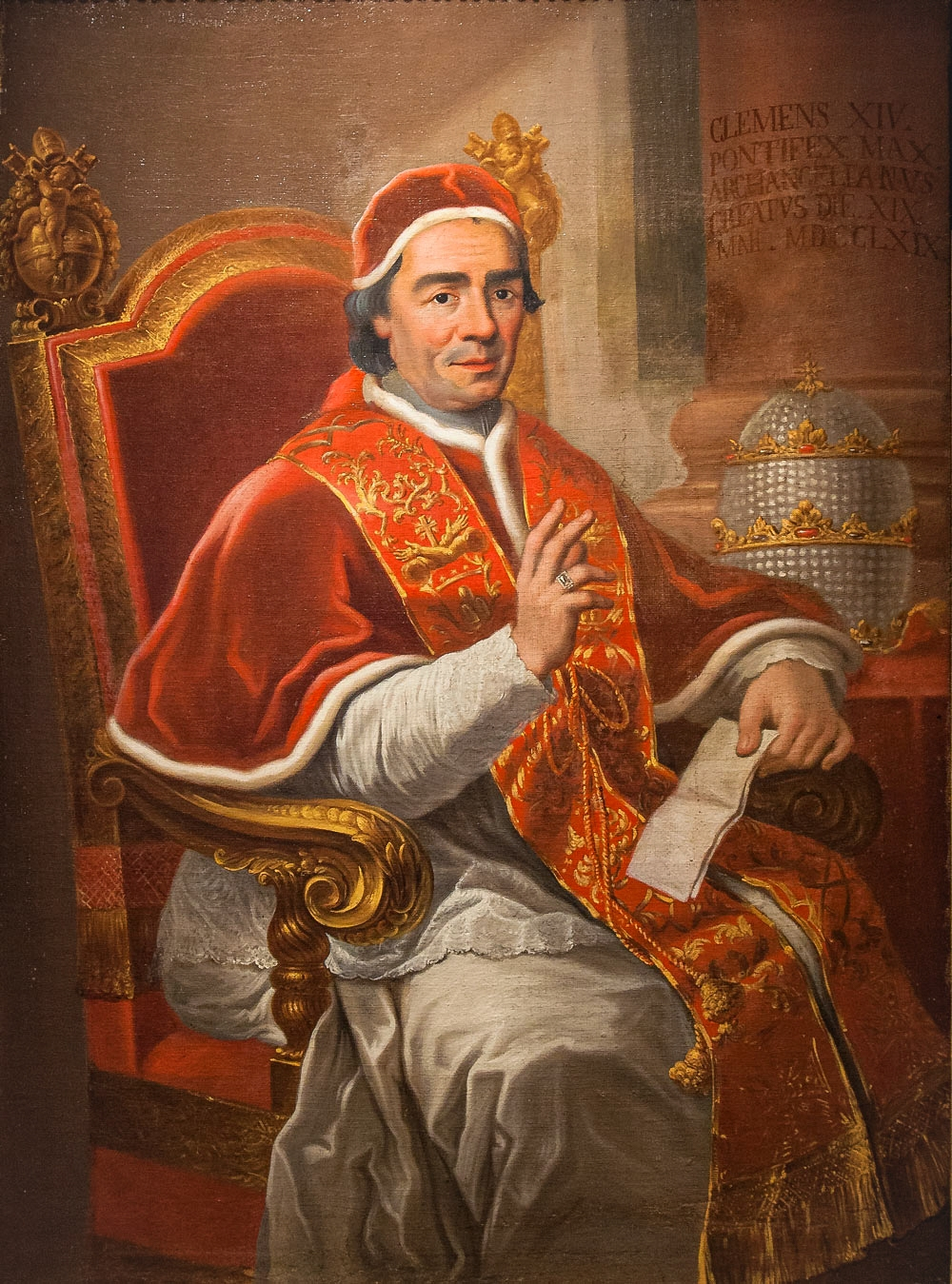 A portrait of Pope Clement XIV held in the Museo Storico of Santarcangelo di Romagna